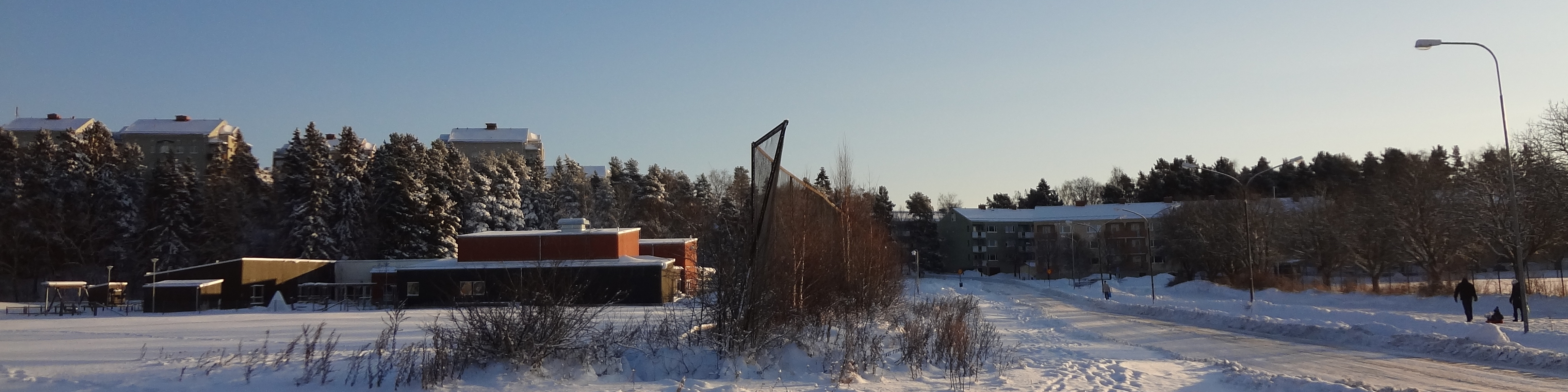 Fröslunda in Eskilstuna, seen from Gillbergavägen.